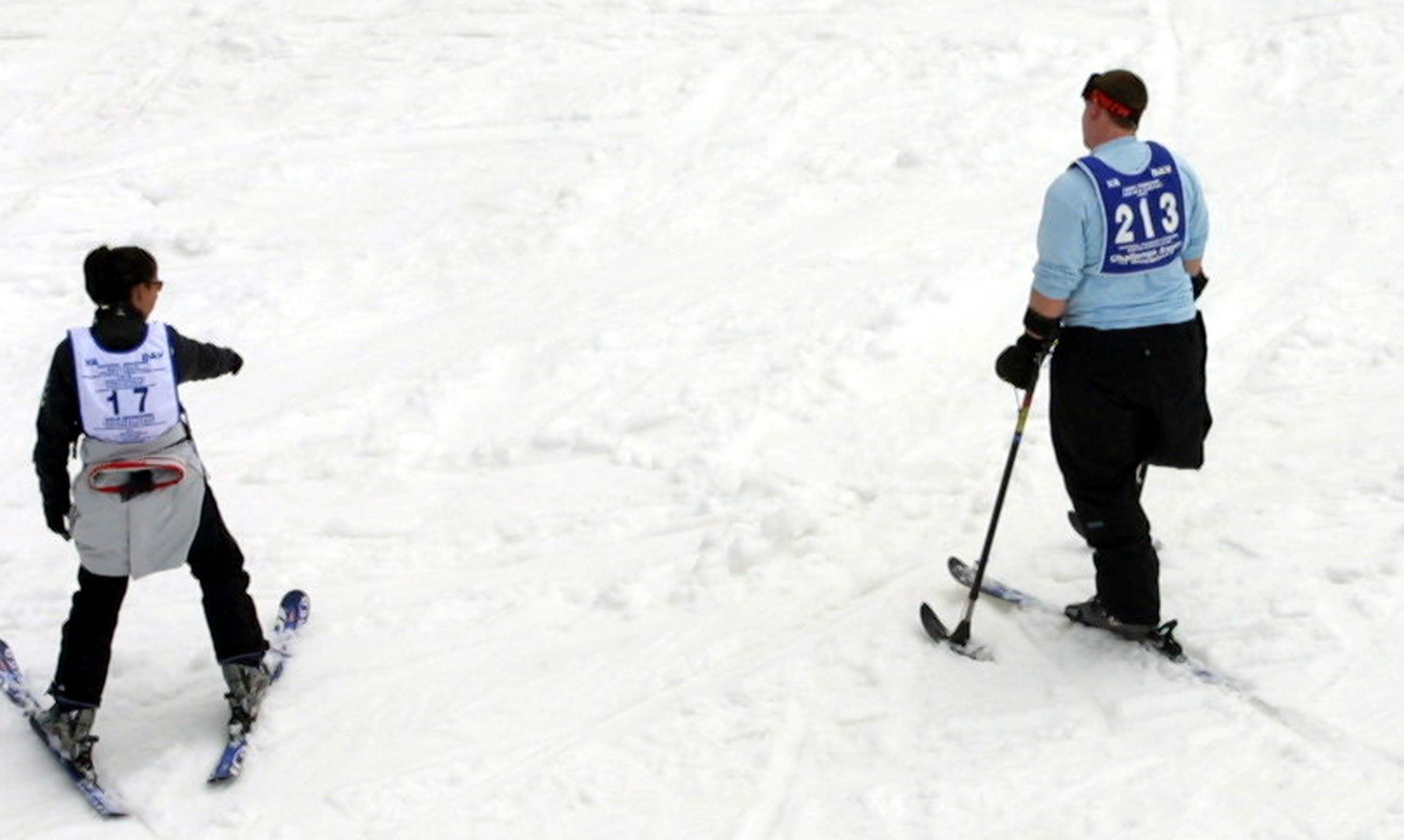 Sgt. David Pettigrew navigates a ski slope near Aspen. A rocket propelled grenade attack near Tikrit, Iraq last year took Pettigrew's right leg. He joined more than 300 Soldiers and veterans for the annual National Disabled Veterans Winter Sports Clinic, held at Snowmass Village, Colo. April 4-9